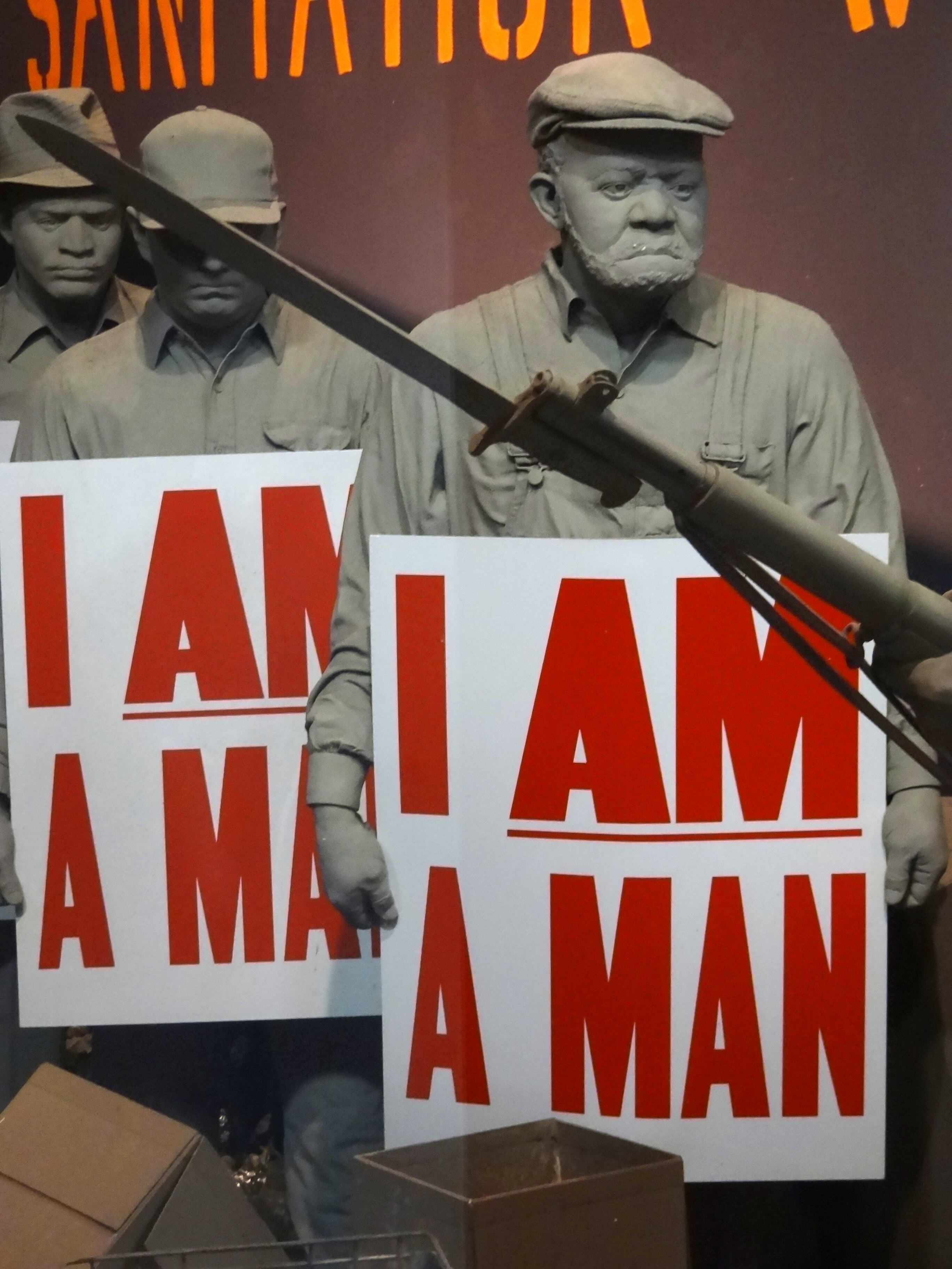 I Am a Man - Diorama of Memphis Sanitation Workers Strike - National Civil Rights Museum - Downtown Memphis - Tennessee - USA